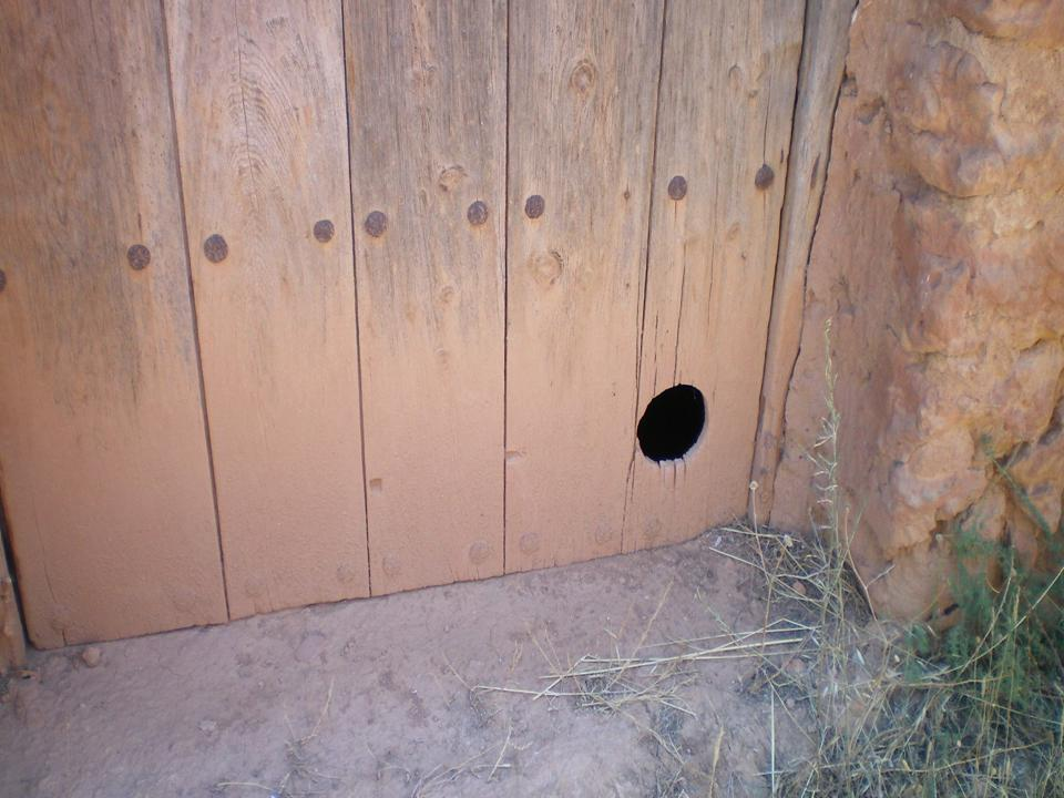 A hole in a door for use by cats. Cats have been used to control pests in rural areas, such as here in Ademuz, Rincón de Ademuz, Spain.